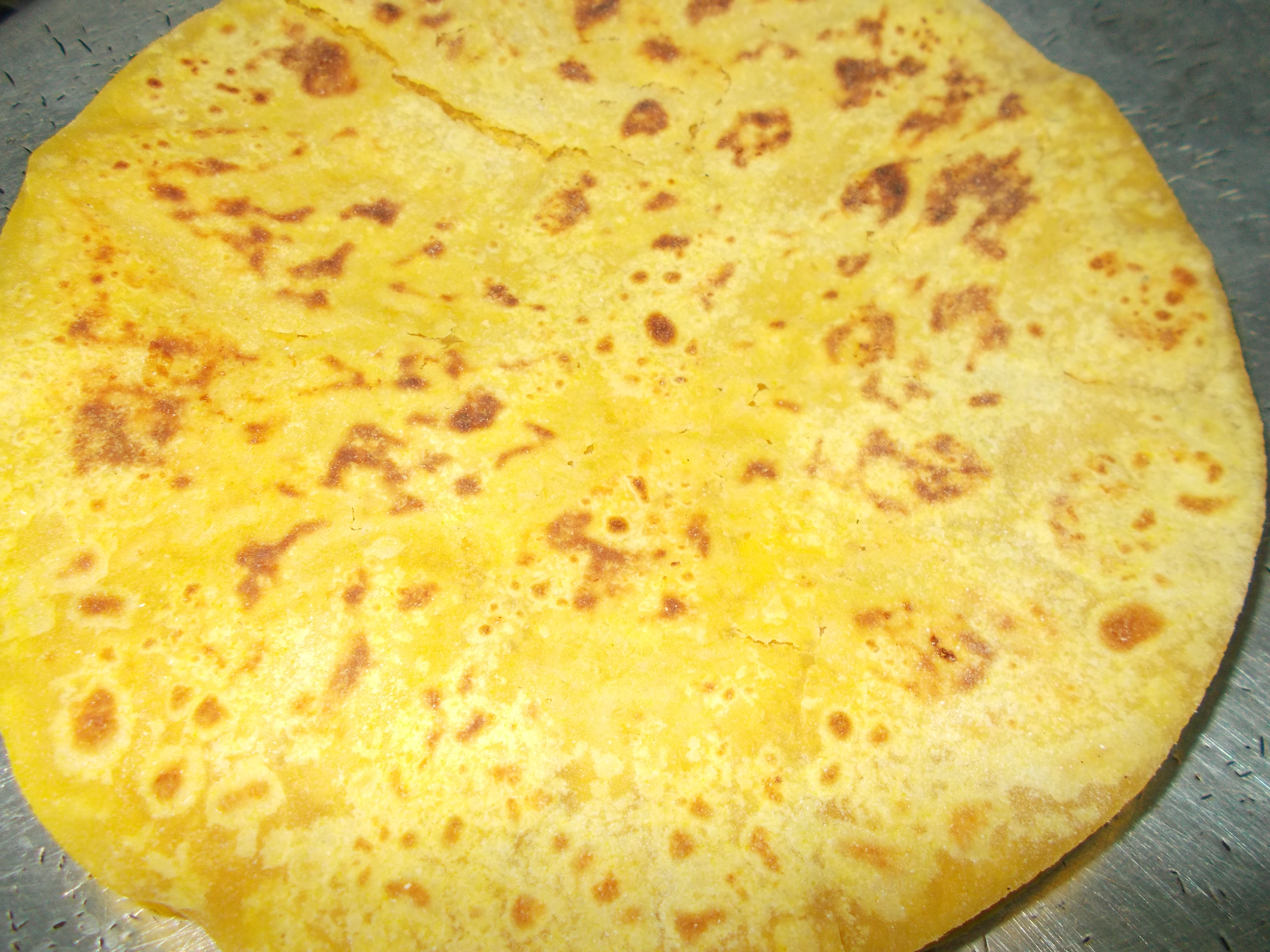 puranpoli make from dal cook with gud